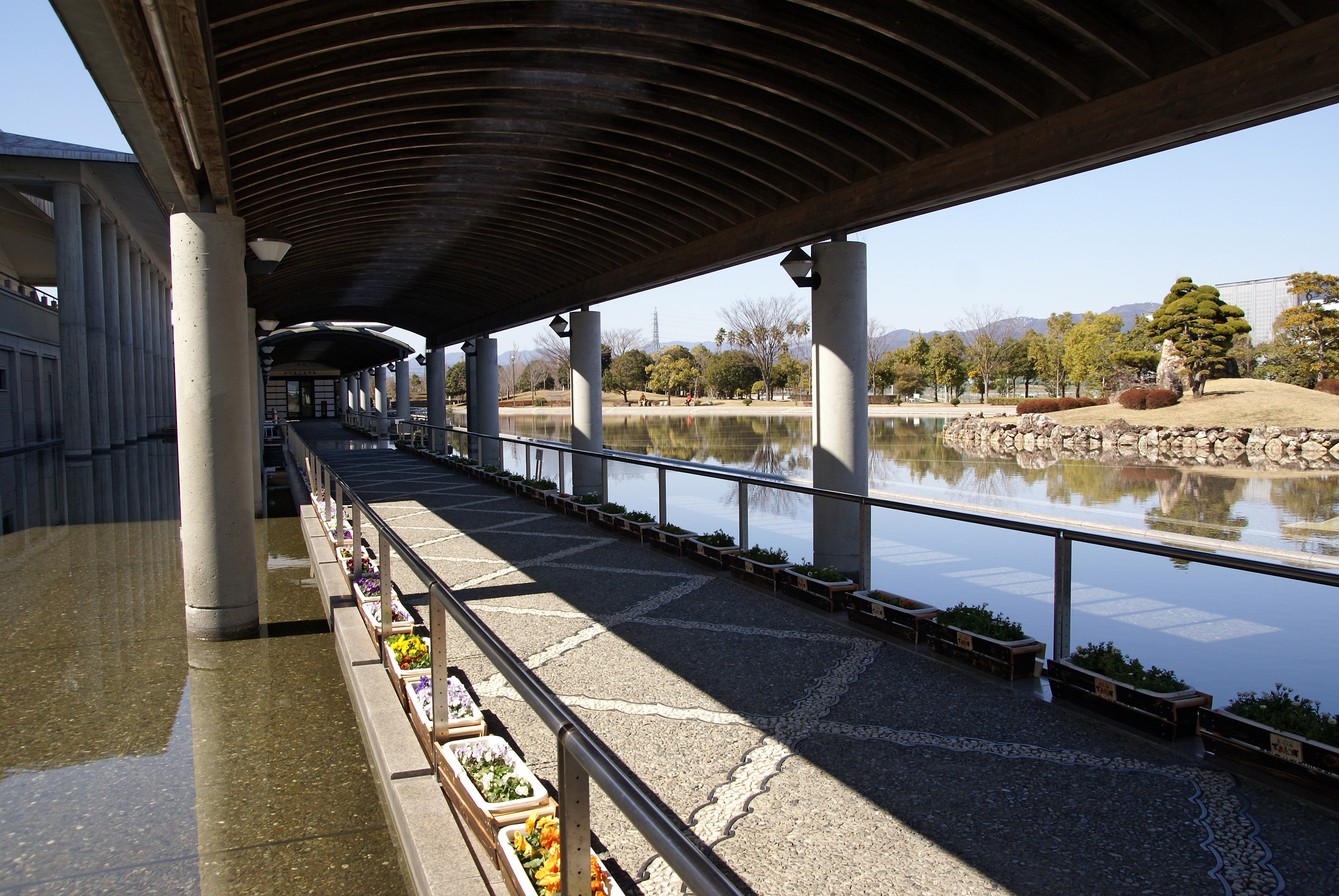 The Museum of Art, Kochi in Kochi, Kochi prefecture, Japan